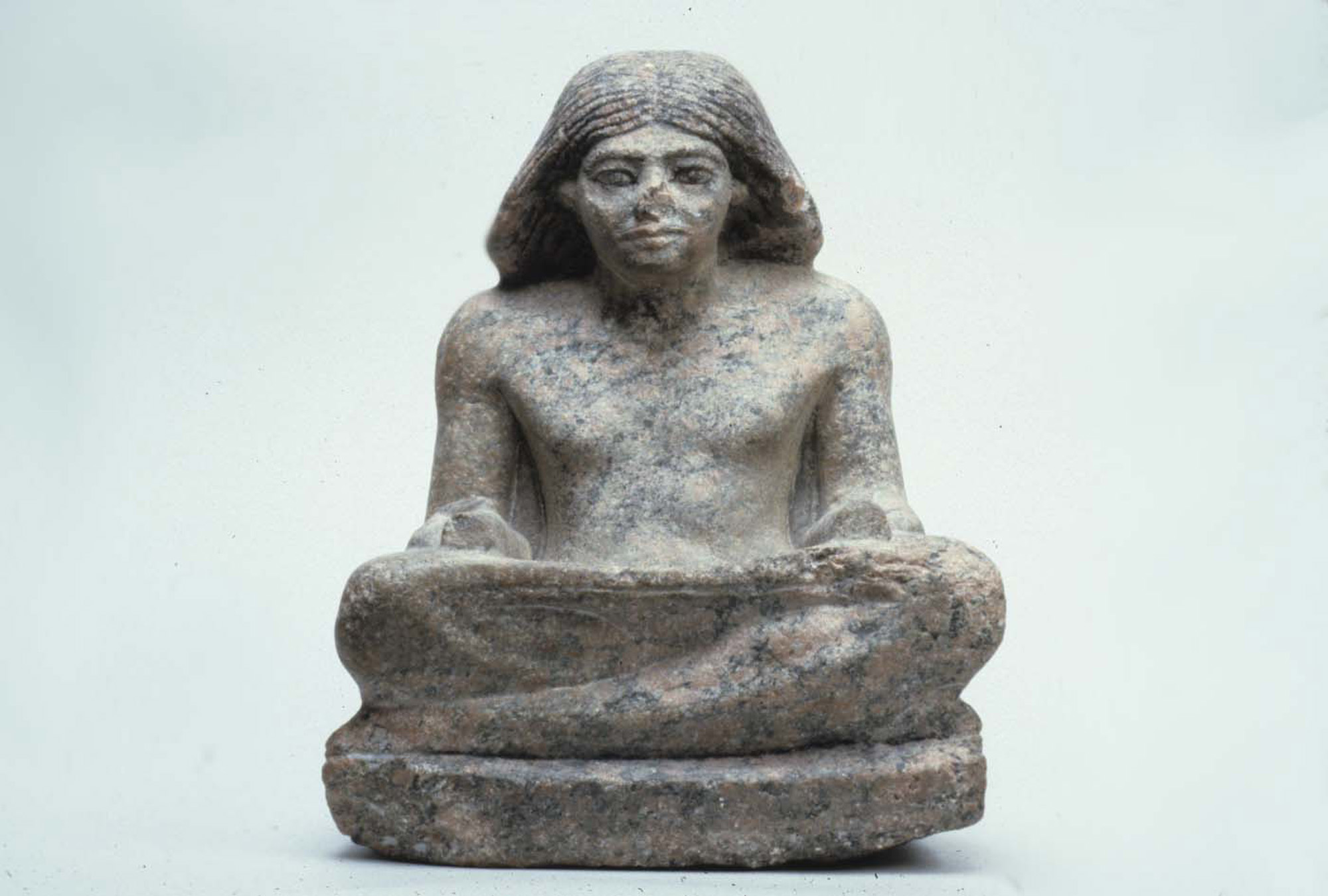 Statue, Nikare, scribe